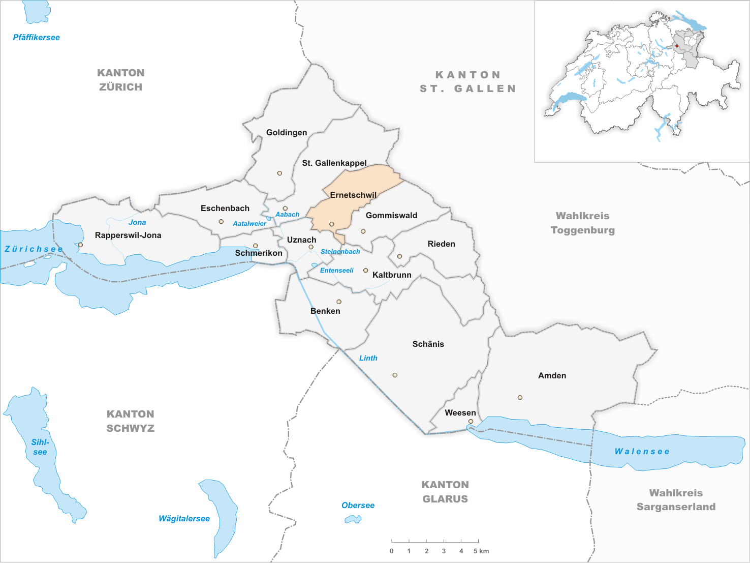 Municipality Ernetschwil